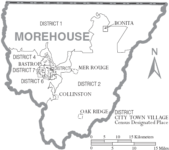 Map of Morehouse Parish, Louisiana, United States with district and municipal boundaries